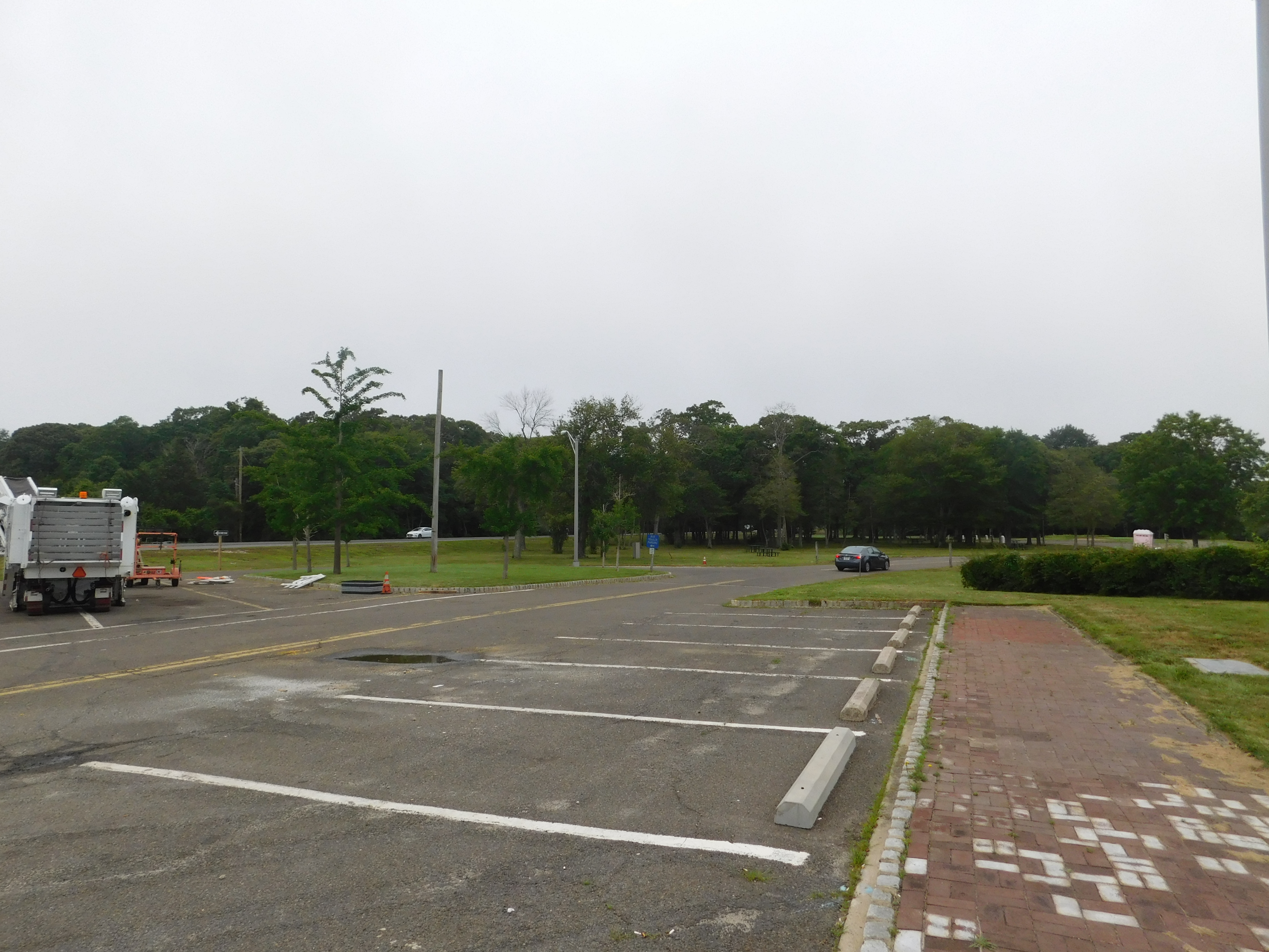 The John B. Townsend Shoemaker Holly picnic area on the Garden State Parkway.